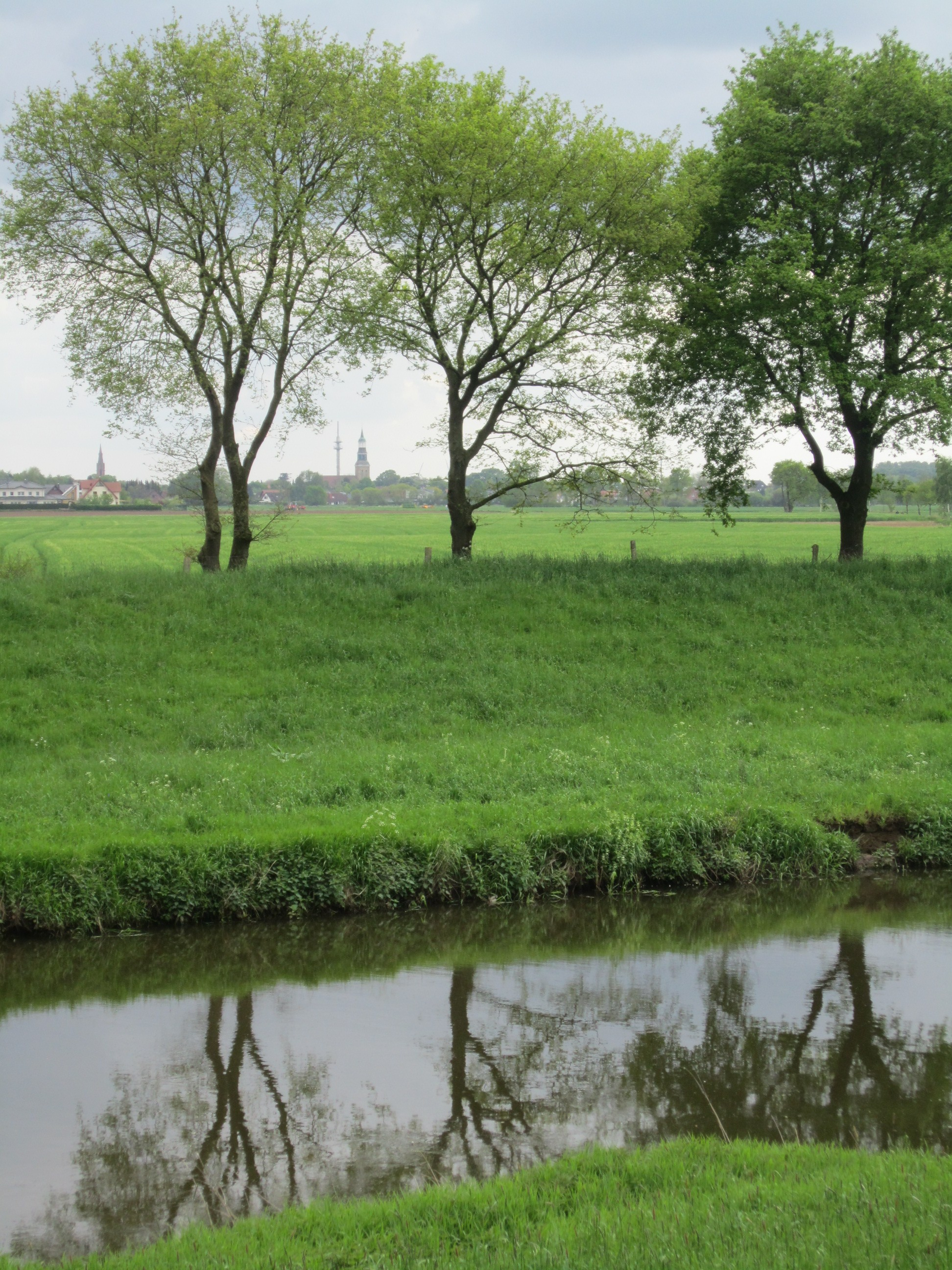 River Hase north of Quakenbrück, viewed from Landkreis Cloppenburg